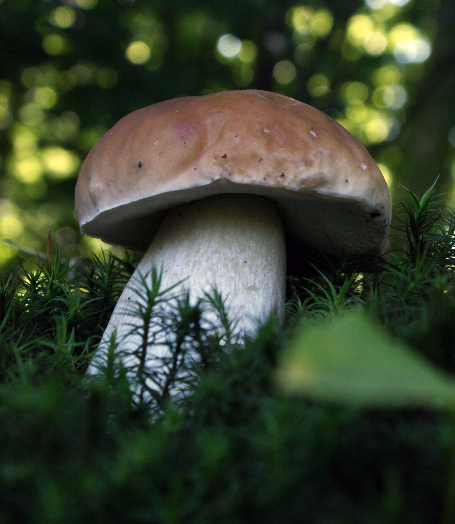 Boletus edulis. Tuchola Forest, Poland.